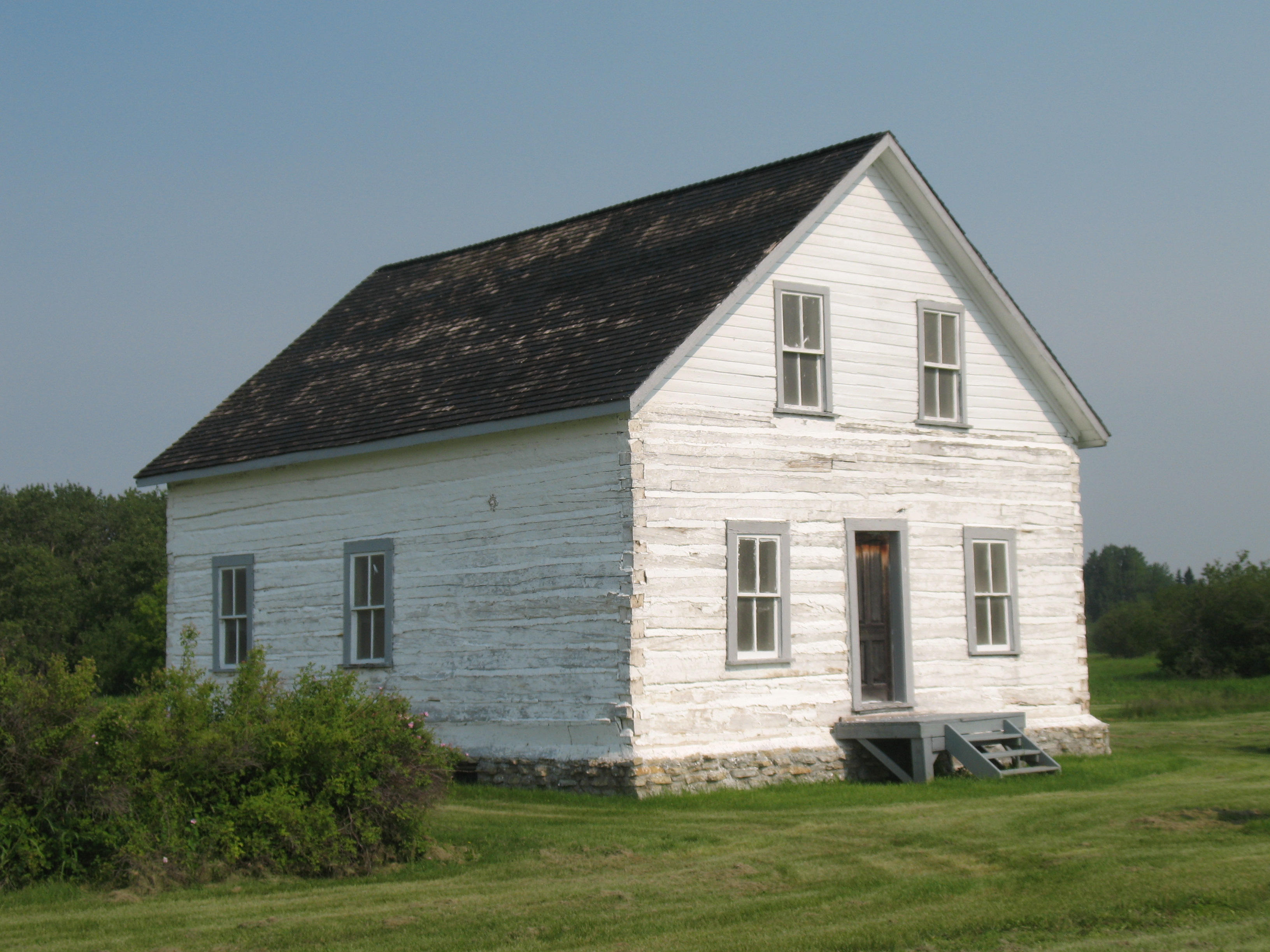 Hecla, Manitoba: Sigurgeirsson Log House